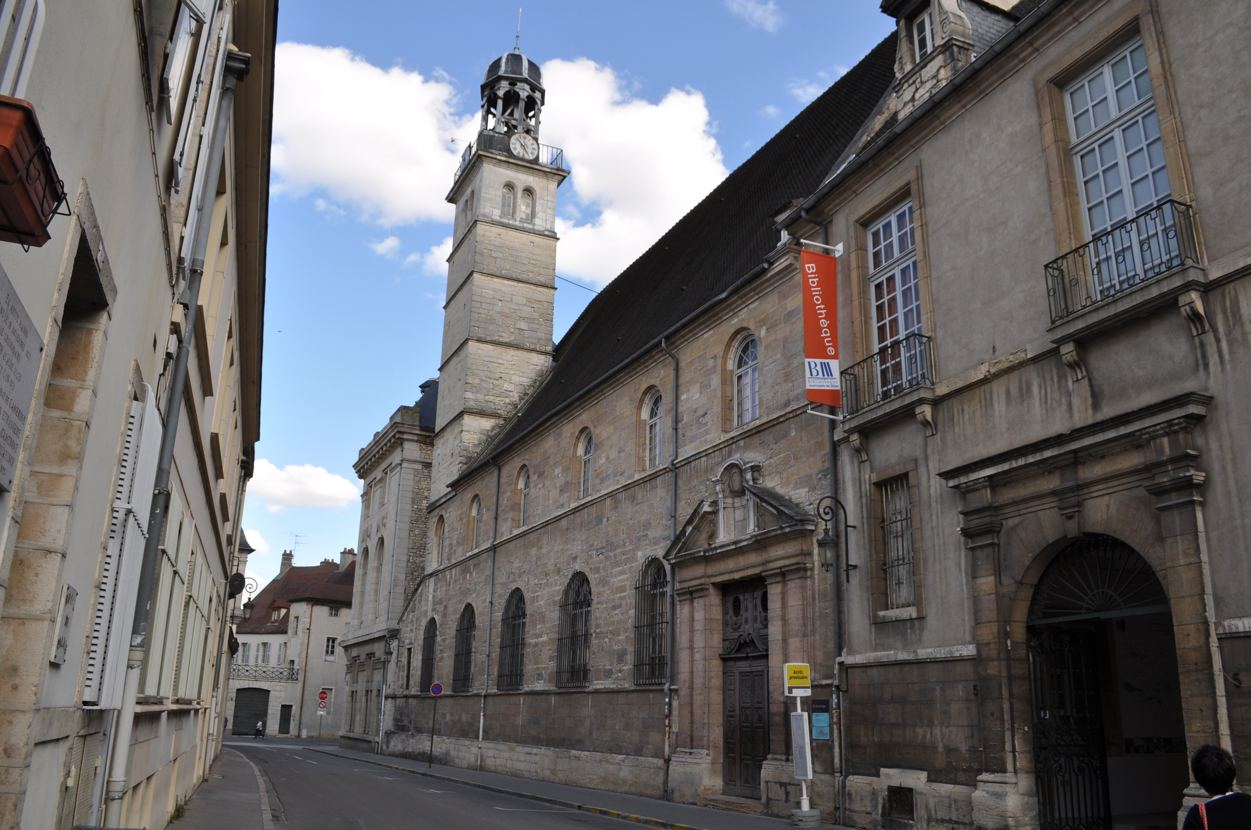 Municipal library patrimoniale et d'études in Dijon (Côte-d'Or).